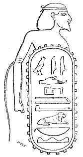 Rawlinson's drawing of a cartouche showing the name "ydhmrk". Champollion's 1829 reading of this name as "King of Judah" is no longer held. Modern scholars generally accept that the phrase refers to "Yad Hemmelek" ("Hand of the King"), although it has also been interpreted as "Juttah of the King".